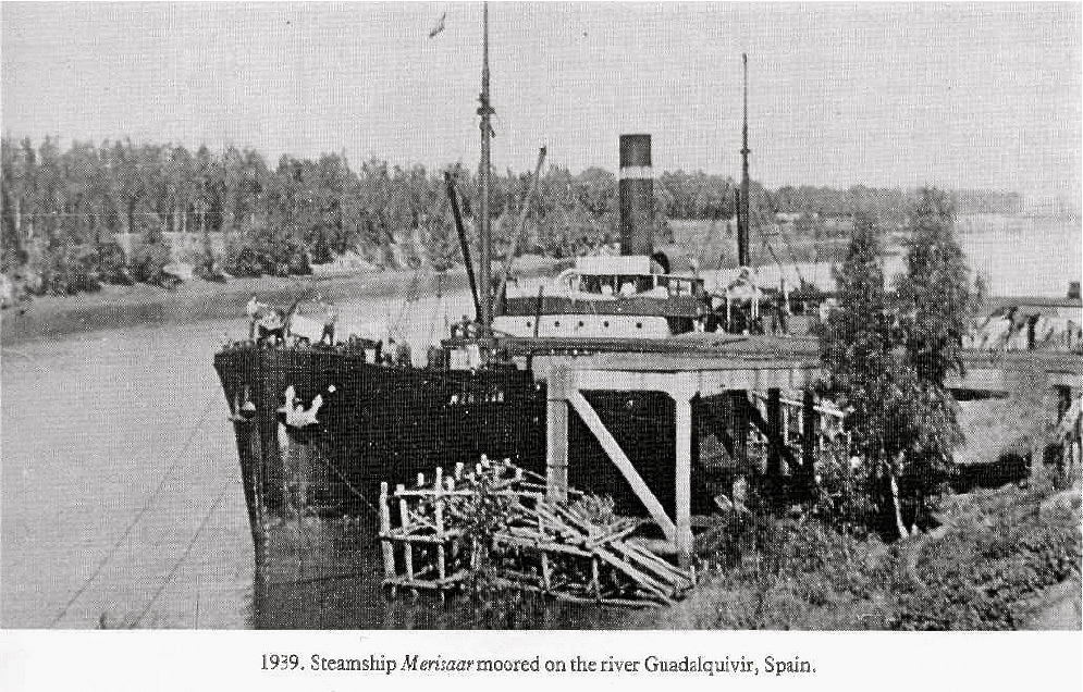 SS Merisaar on the Guadalquivir River, Spain in 1939.